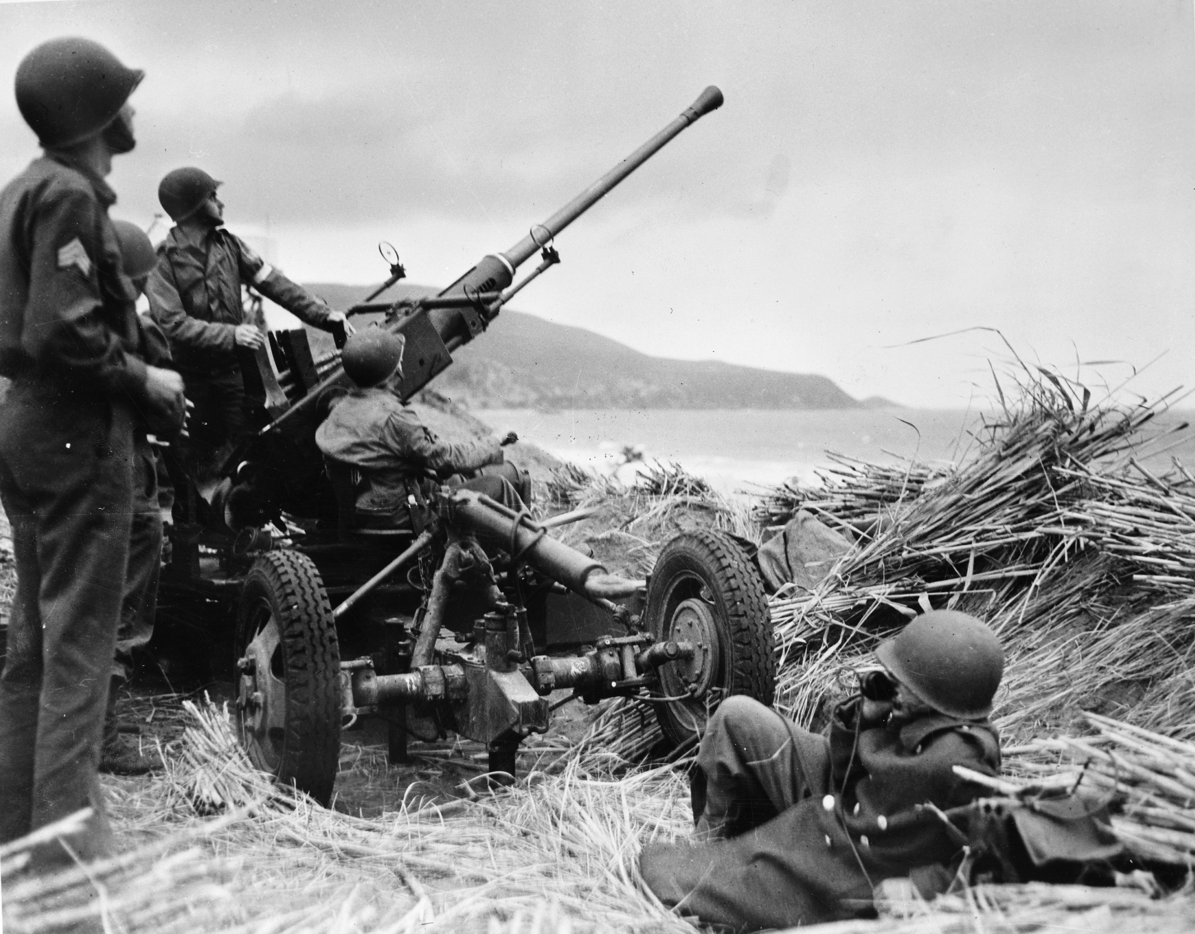 Anti-aircraft bofors gun in at position on a mound overlooking the beach in Algeria with a United States anti-aircraft artillery crew in position.